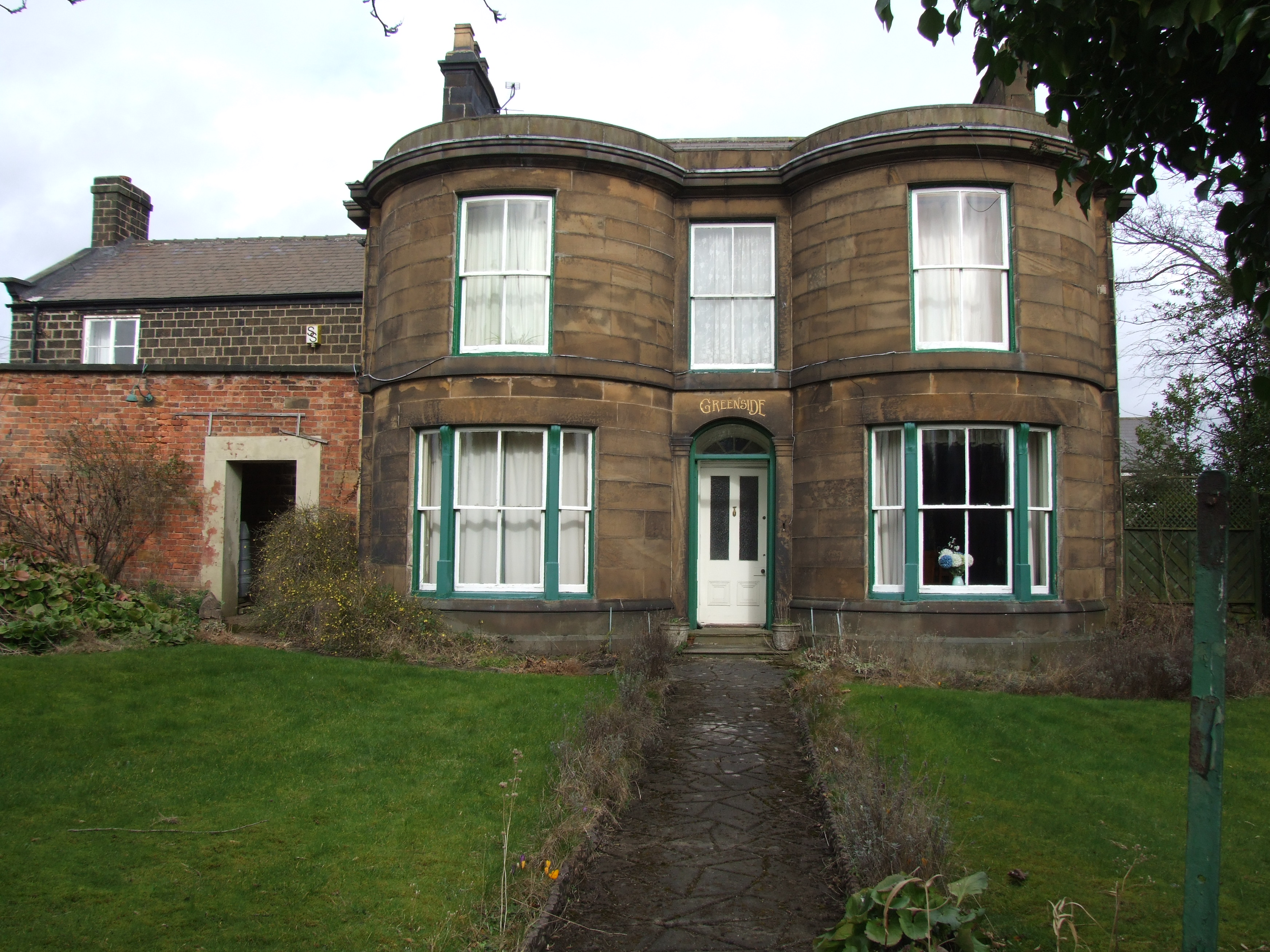 Greenside House, Grade II Listed Building in Sheffield, S12